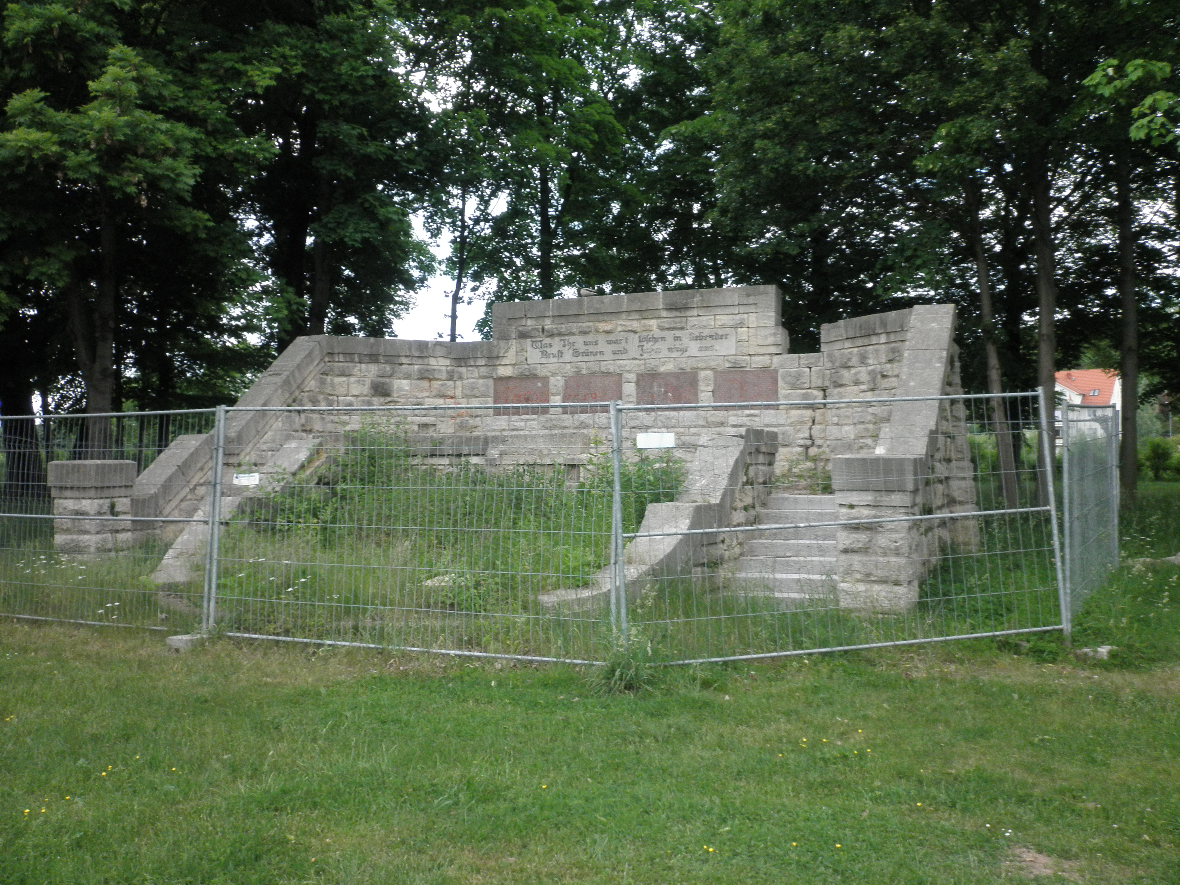 War Memorial in Castle Park in Sondershausen in Thuringia